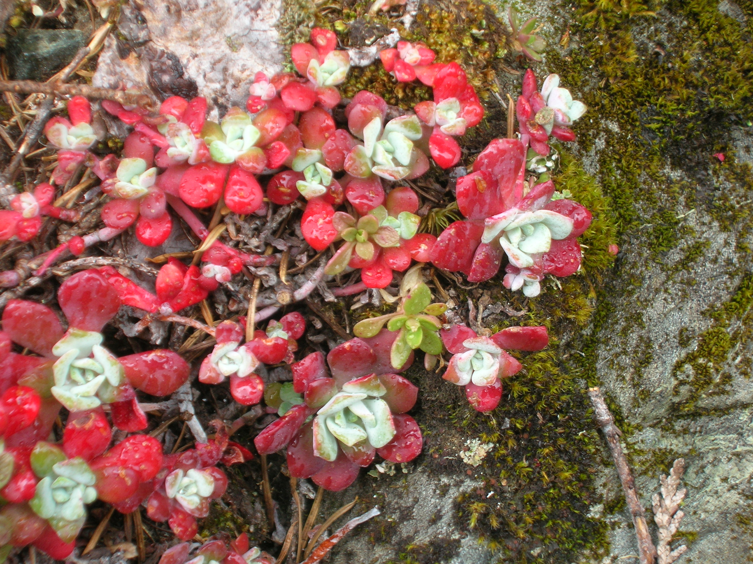 Duckabush Trail Olympic National Park i051306 100